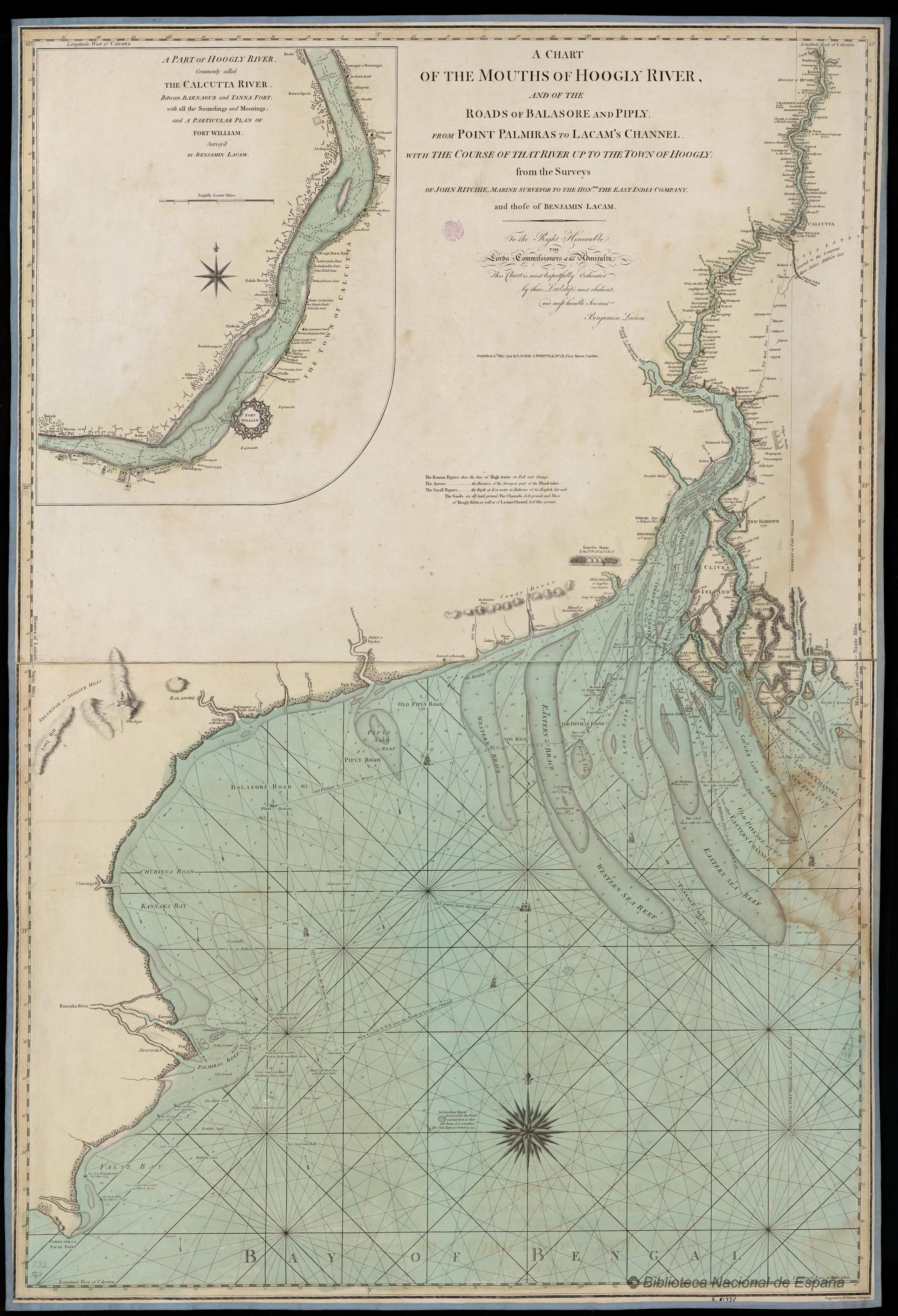 Chart of the Mouths of the Hoogly River and of the Roads of Balasore and Piply, from Point Palmiras to Lacam's Channel, with the course of that river up to the town of Hoogly